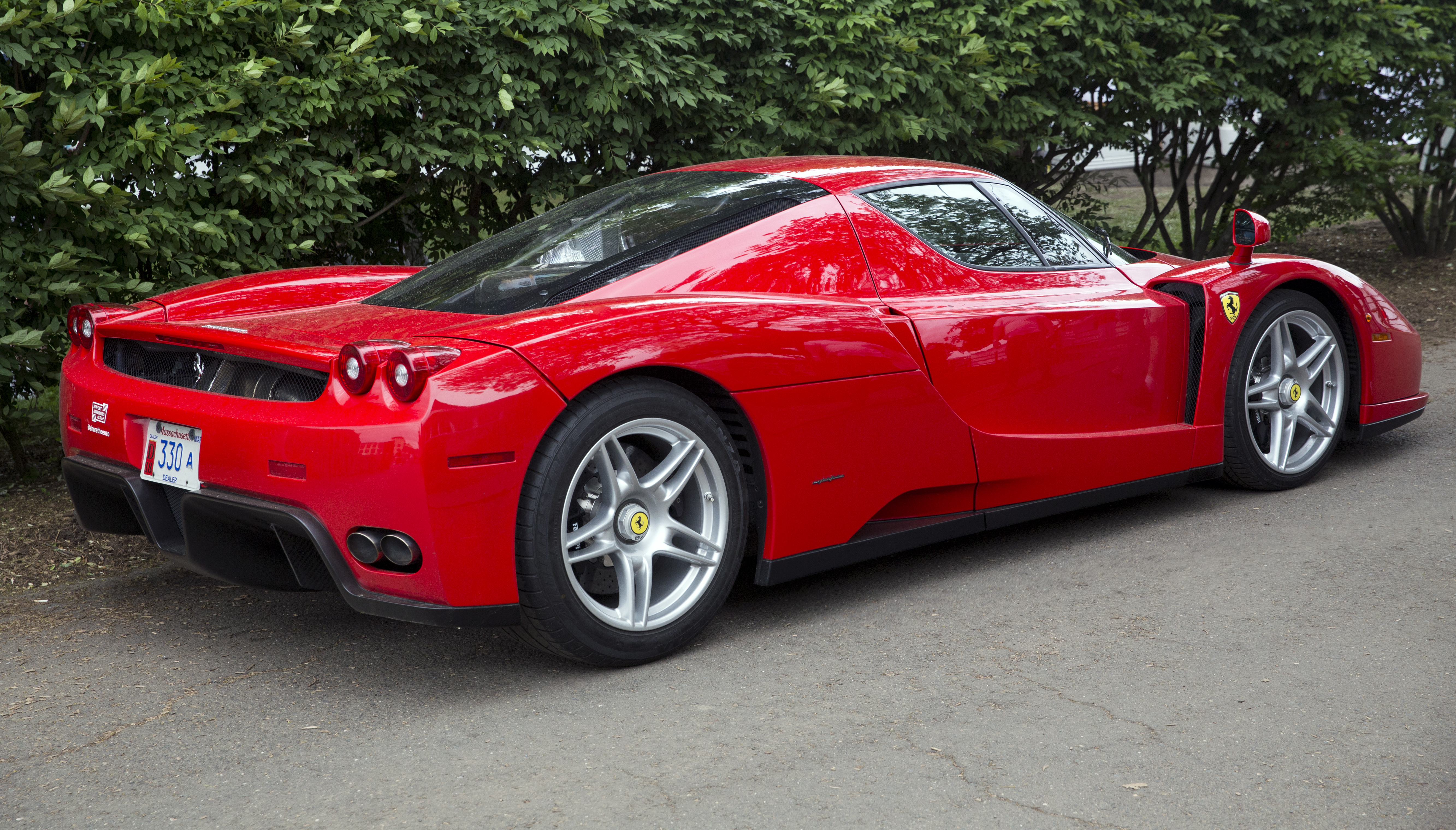 2003 Ferrari Enzo hanging out at the 2018 Greenwich Concours d'Elegance. Belongs to @sharetheenzo, who believes in driving it. Love the In-n-Out sticker. The car has racked up over 12K miles, which is pretty high for one of these beasts.